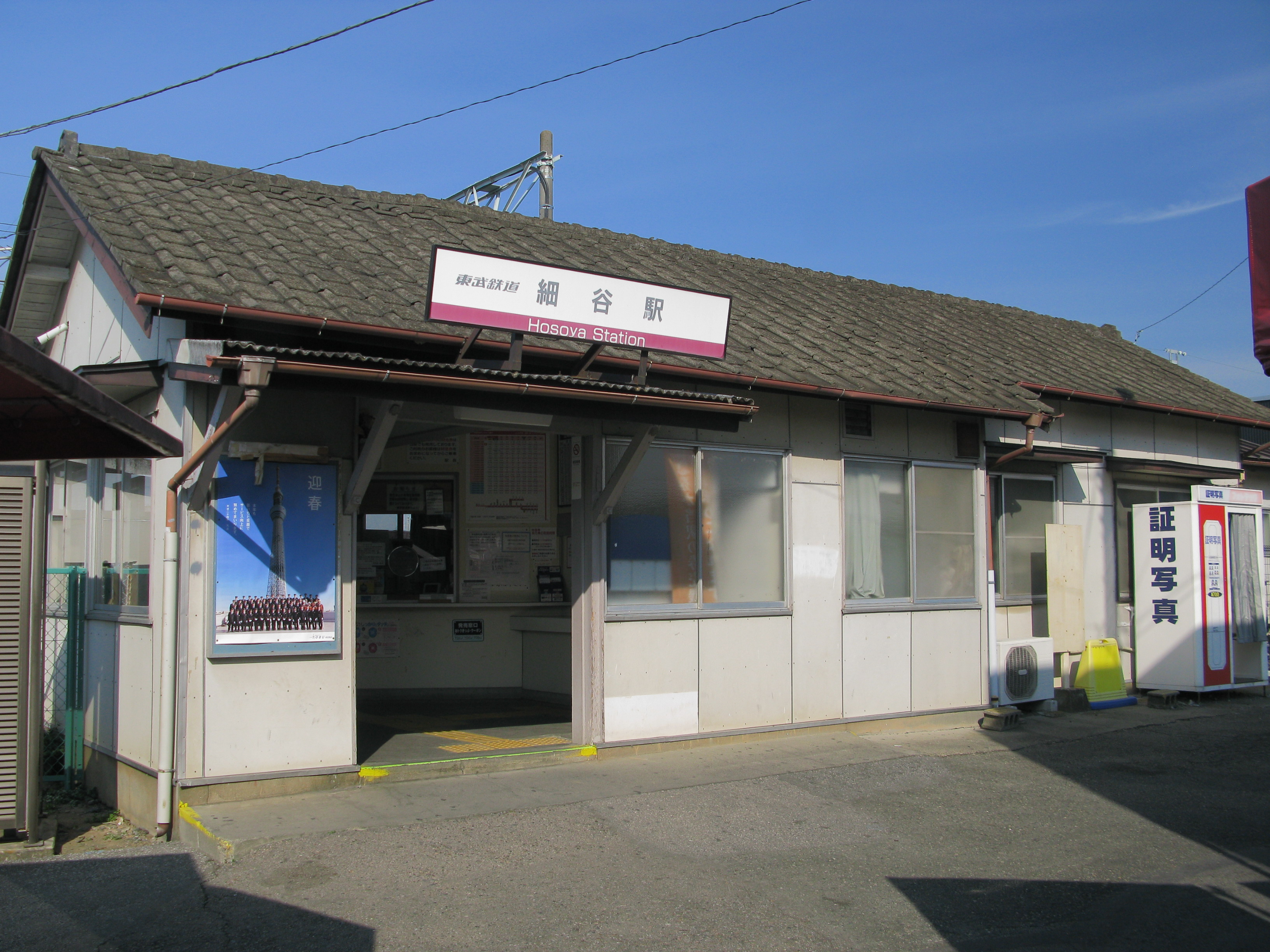 Hosoya Station on the Tobu Isesaki Line in Gunma Prefecture, Japan